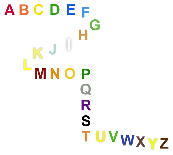 Here is the way I see the alphabet through my synesthesia. Each letter has a distinct color and position along my letter-line. Though I view the letters in this spatial sequence, trying to transfer it to a 2-dimensional plane is really difficult. =/